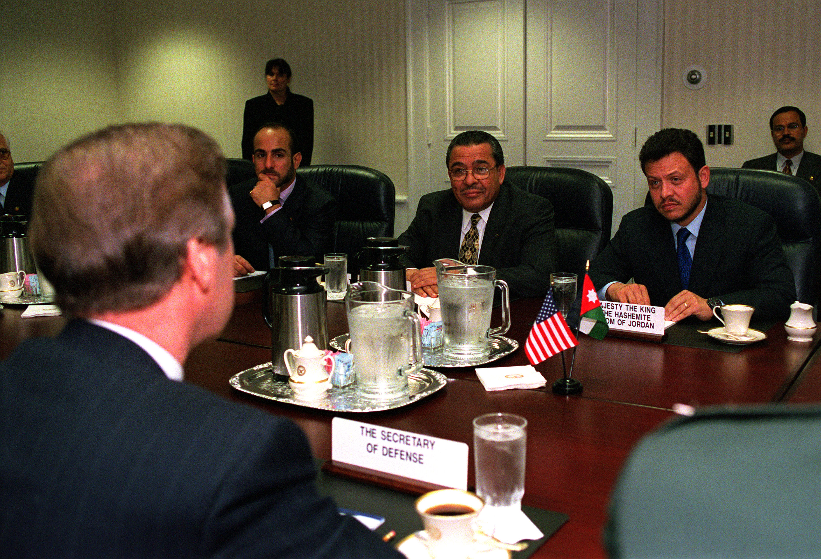 His Majesty King Abdallah II (right), of the Hashemite Kingdom of Jordan, meets with Secretary of Defense William Cohen (left) in the Pentagon on May 20, 1999. Among the senior Jordanian officials attending the meeting are His Royal Highness Prince Mohamed (2nd from left) and His Excellency the Prime Minister Abdur-Ra'uf Rawabdeh (seated beside the King).